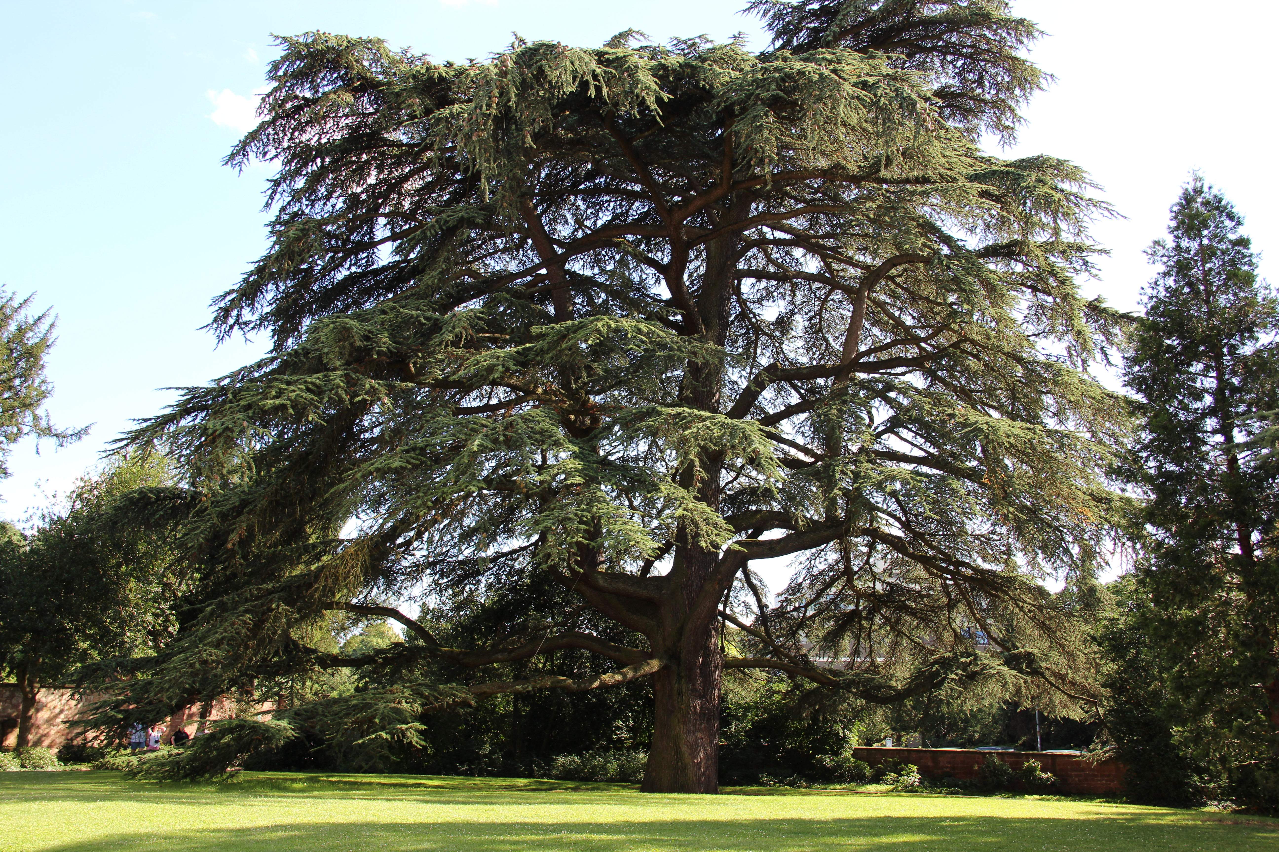 Lebanon Cedar in Weinheim (Germany) planted approx. 1720